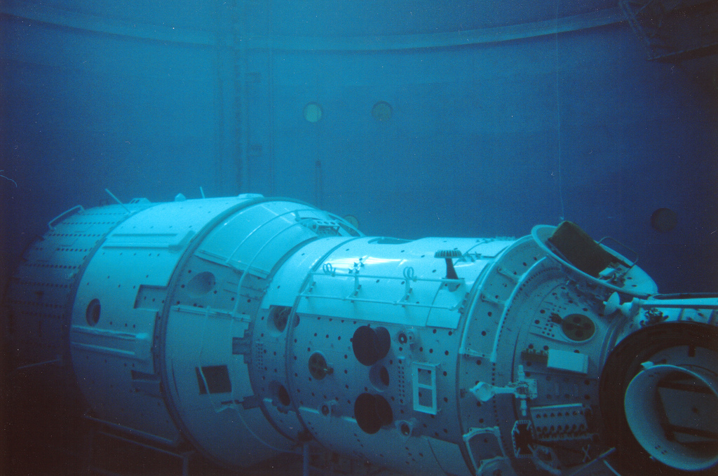 I took this photo in Star City in summer 1999. To see it on my Flickr page, go here: [1]